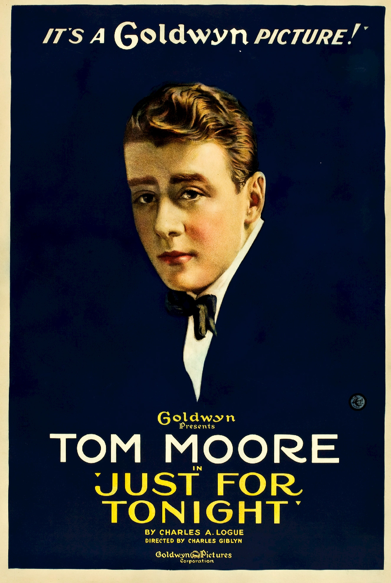 Poster for the American comedy drama film Just for Tonight (1918) with Tom Moore.